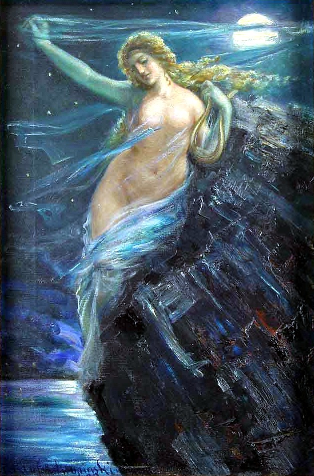 Loreley, 1899 Oil on canvas, 60 x 40 cm. Manipulated version.